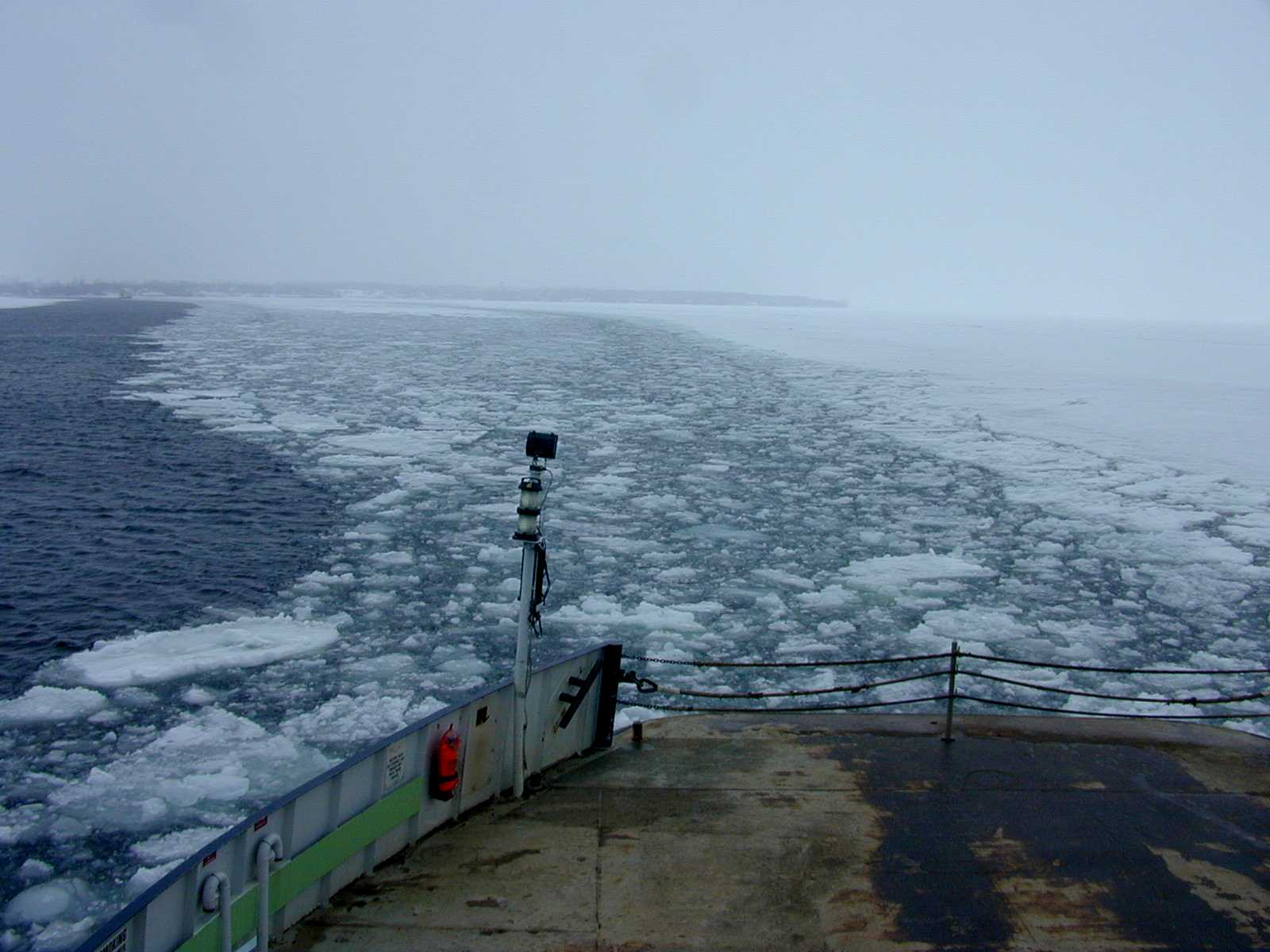 The Evans Wadhams Wolcott, one of the ferries of the Lake Champlain Transportation Company, breaking ice in the winter.